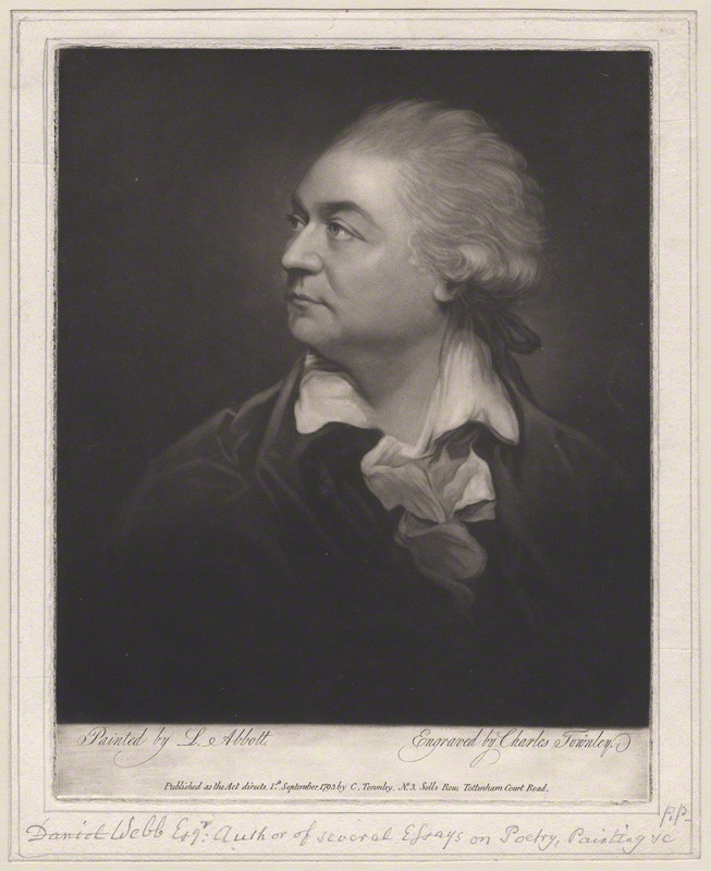 Portrait of Francis Webb (1735-1815)